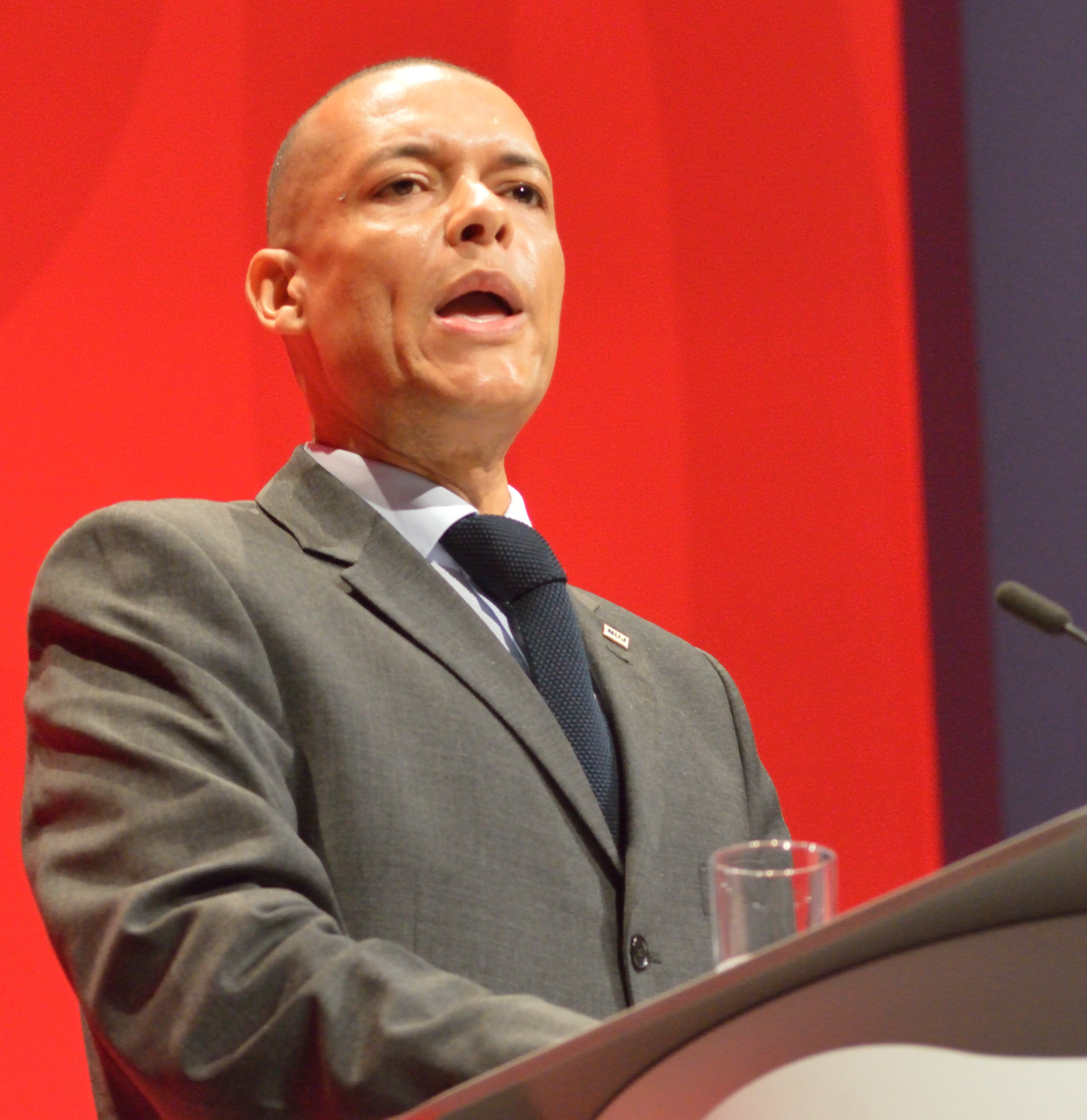 Clive Lewis giving his Shadow Secretary of State for Defence speech at the 2016 Labour Party Conference in Liverpool.